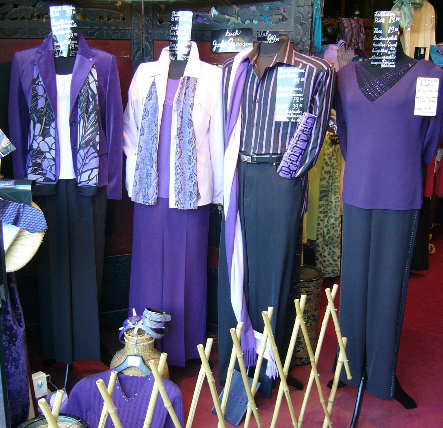 Male and female clothes in lilac